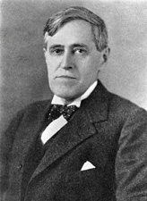 WOLCOTT, Josiah Oliver, a Senator from Delaware